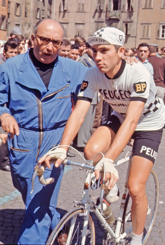 The Belgian cyclist Eddy Merckx arriving at the start of the 22nd stage of the Giro d'Italia Tirano-Milan. Tirano, 11th June 1967